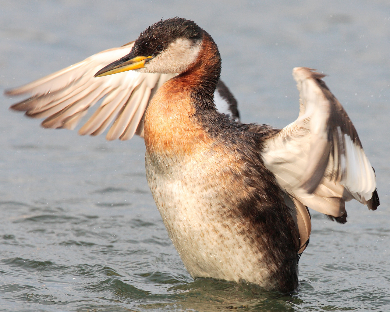 Red-neck in Bronte Harbour, Oakville, Ontario